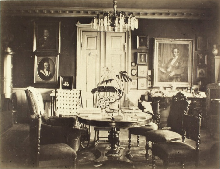 Ny Bakkegaard in Frederiksberg, Denmark. Home of prime minister Carl Christian Hall (1812-1888)